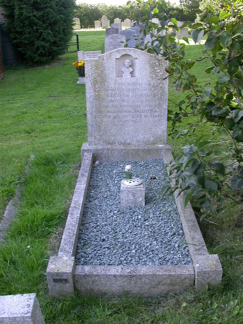 Resting Place of Coco the Clown. In Woodnewton Parish Churchyard. The inscription on the gravestone begins 'In Loving Memory of Nicolai Polakovs O.B.E. (Coco the Clown)'. Died 25th Sept 1974 aged 74. His wife Valentina is also buried there, 1983, aged 82.